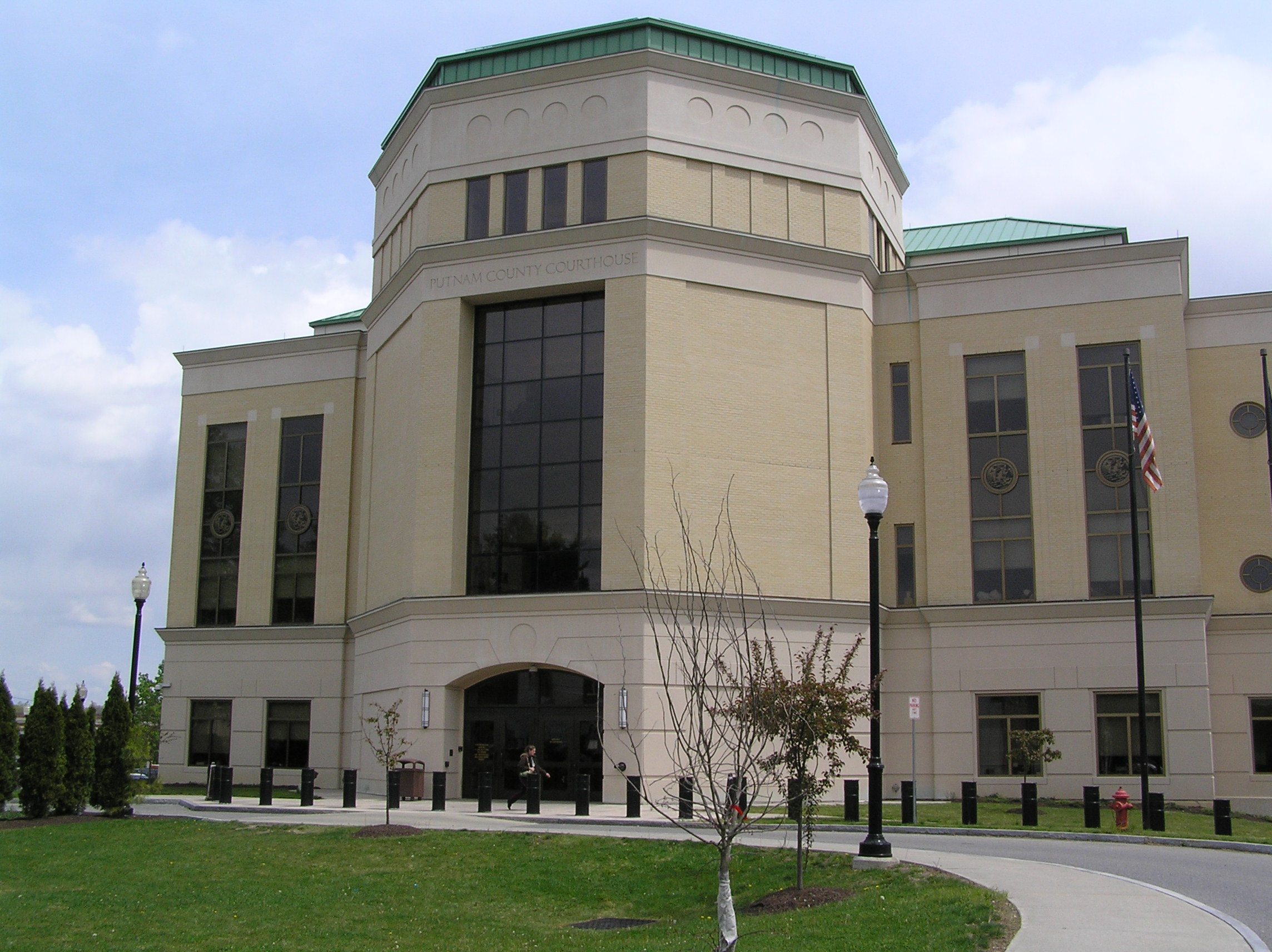 This is a photograph of the new Putnam County Courthouse in Carmel, NY